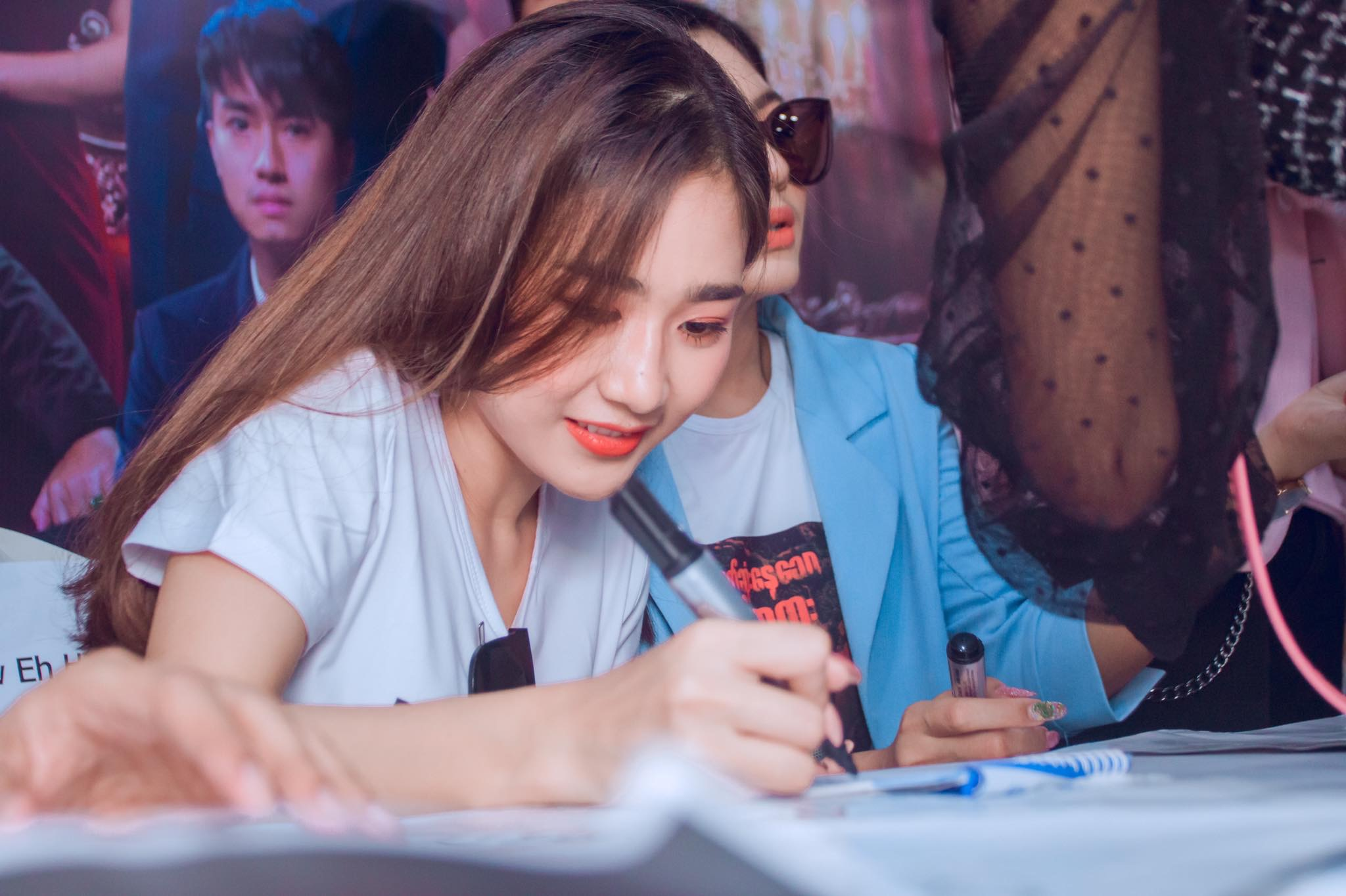 Rising star actress Naw Phaw Eh Htar